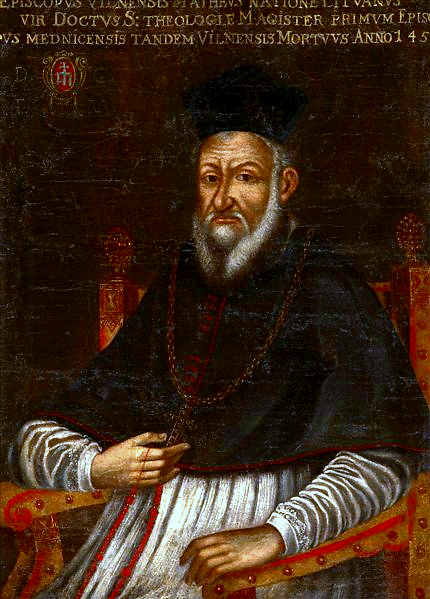 Bishop of Vilnius Matthias, Lithuanian nationality, master of saint theology. First bishop of Medininkai then Vilnius. Died in 1453.